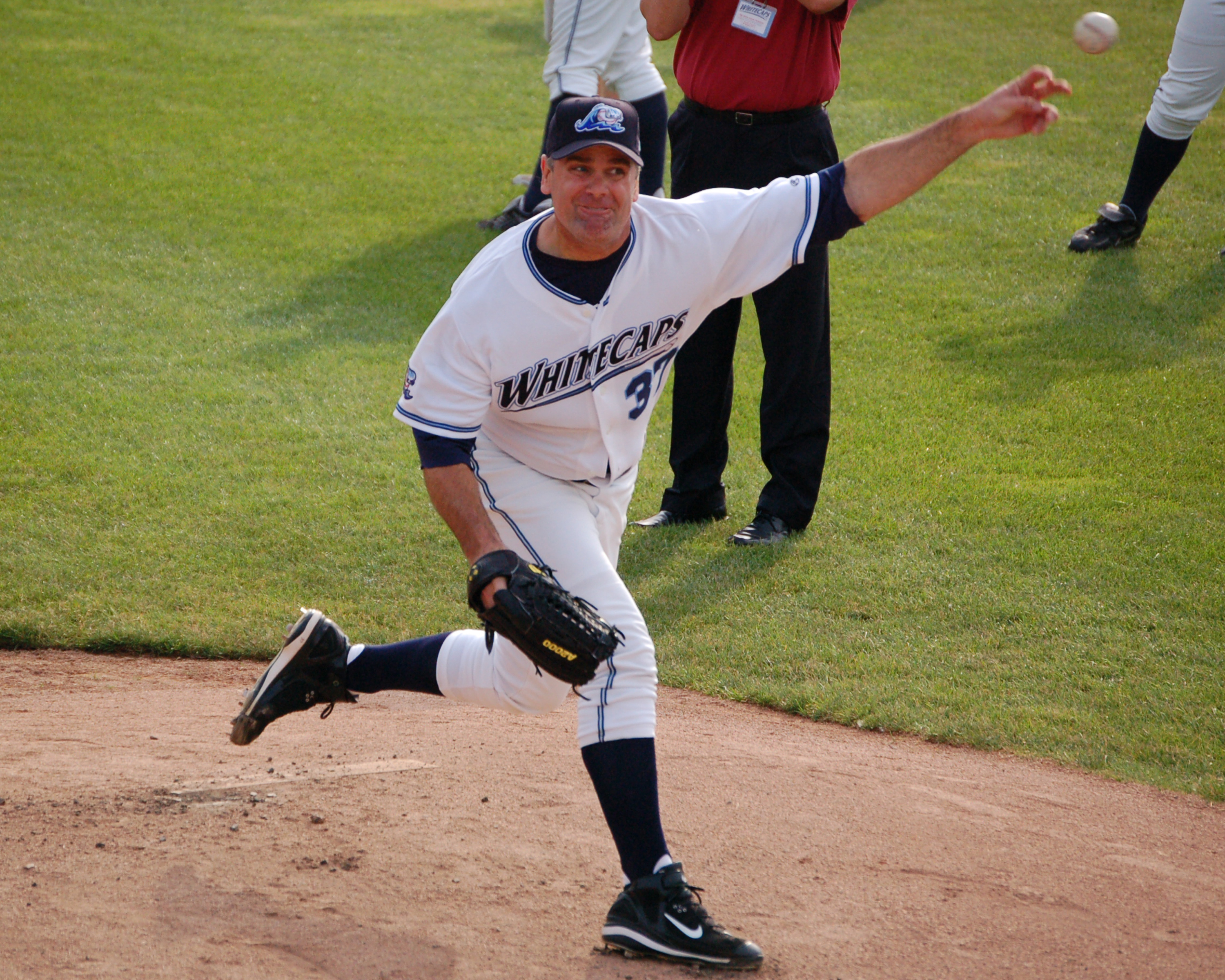 Kenny Rogers warming up prior to a 2007 rehab start with the West Michigan Whitecaps